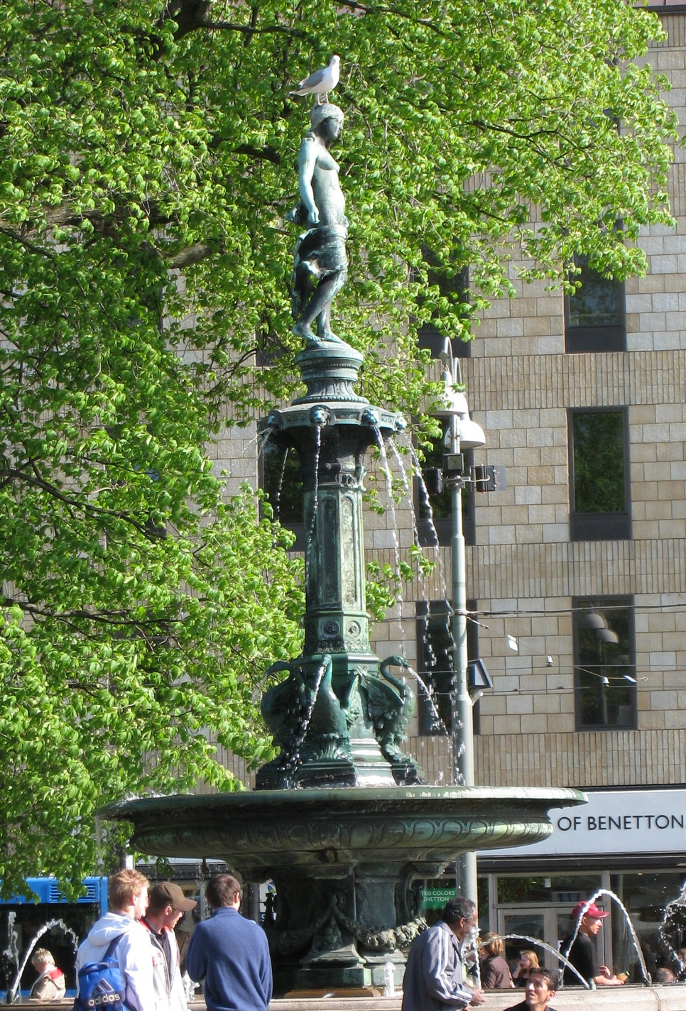 cropped version